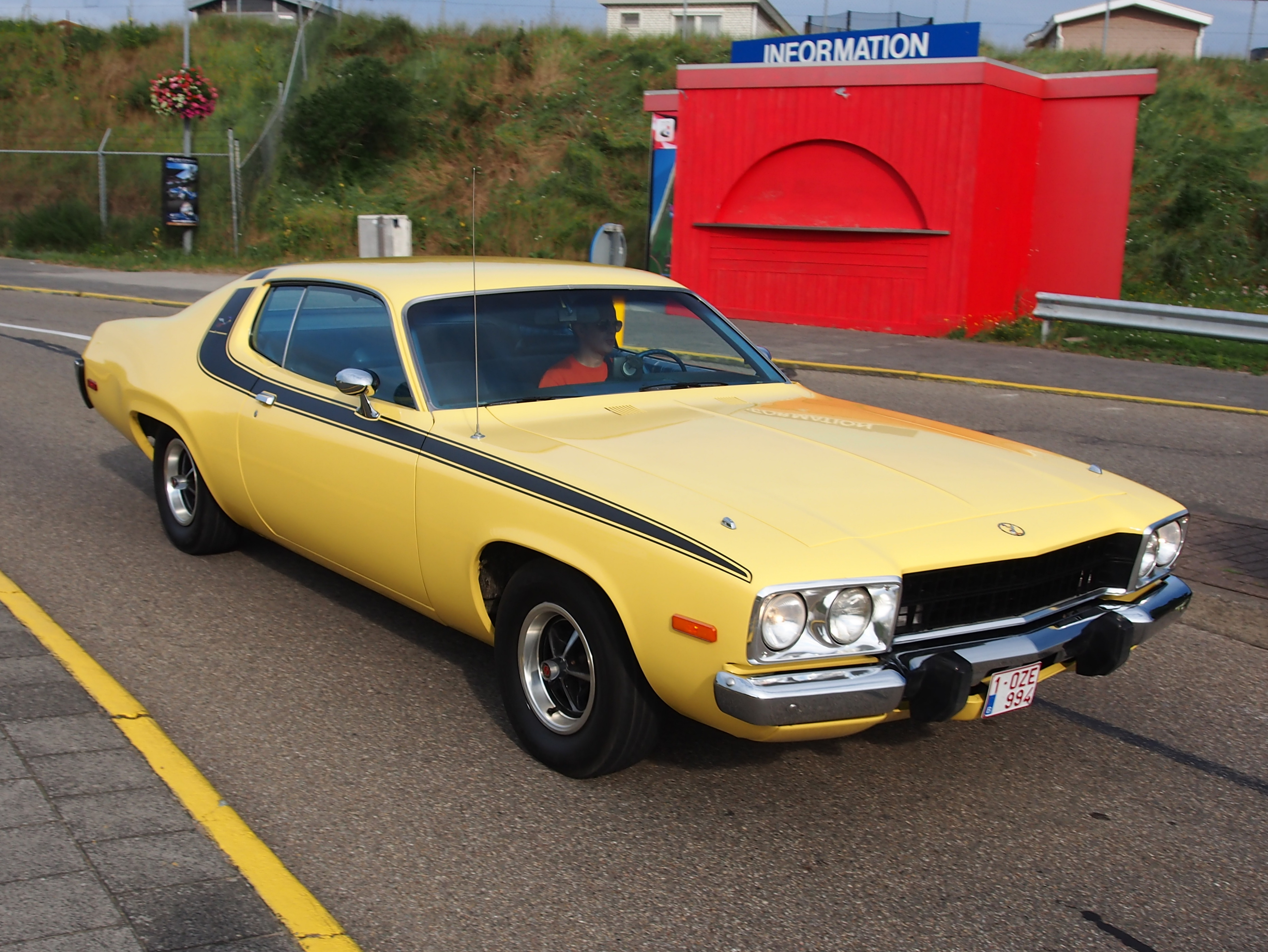 Photographed at the Nationaal Oldtimer Festival Zandvoort 2014, The Netherlands.